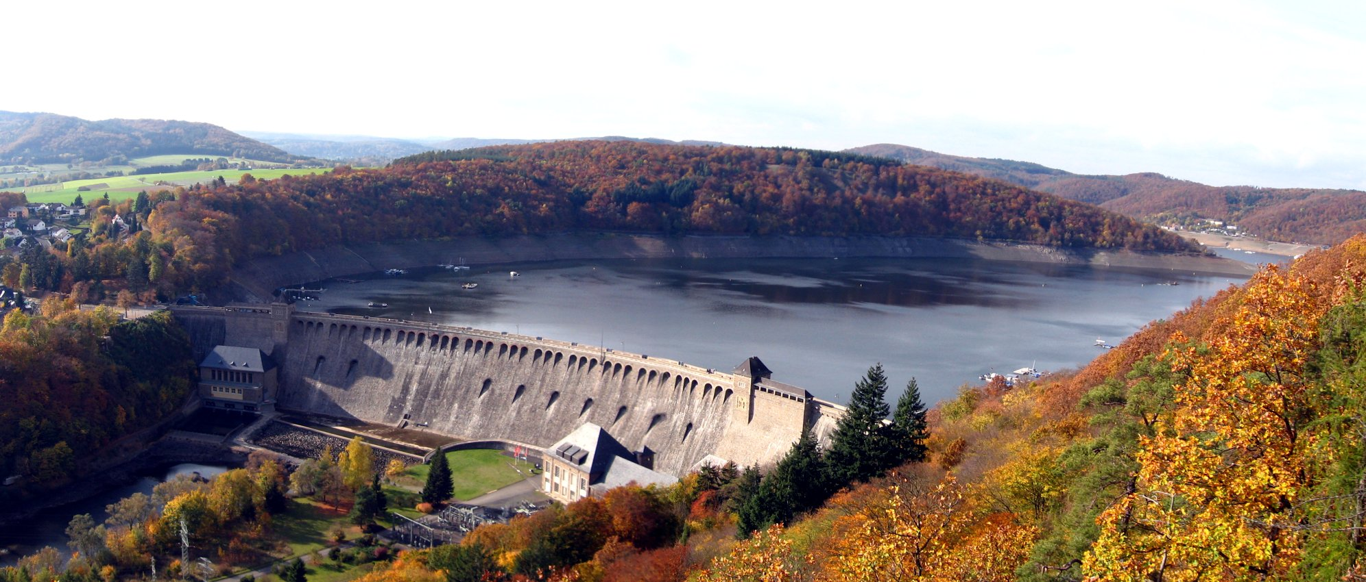 Germany / Hesse / Lake Edersee